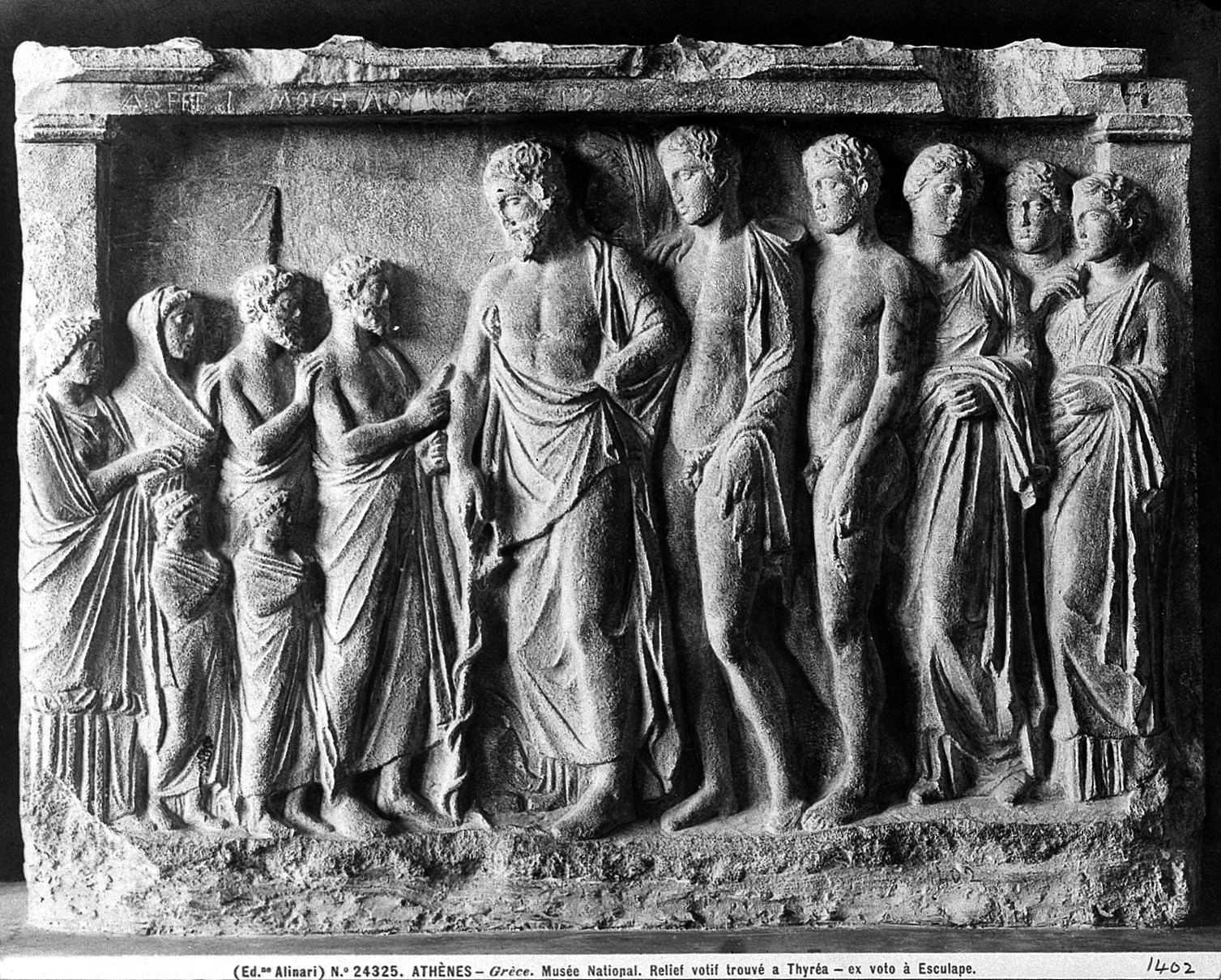 Aesculapius with his sons Podalairius and Machaon and three daughters - with supplicants. Greek relief found at Thyrea. At National Museum Athens. Wellcome Images Keywords: Aesculapius